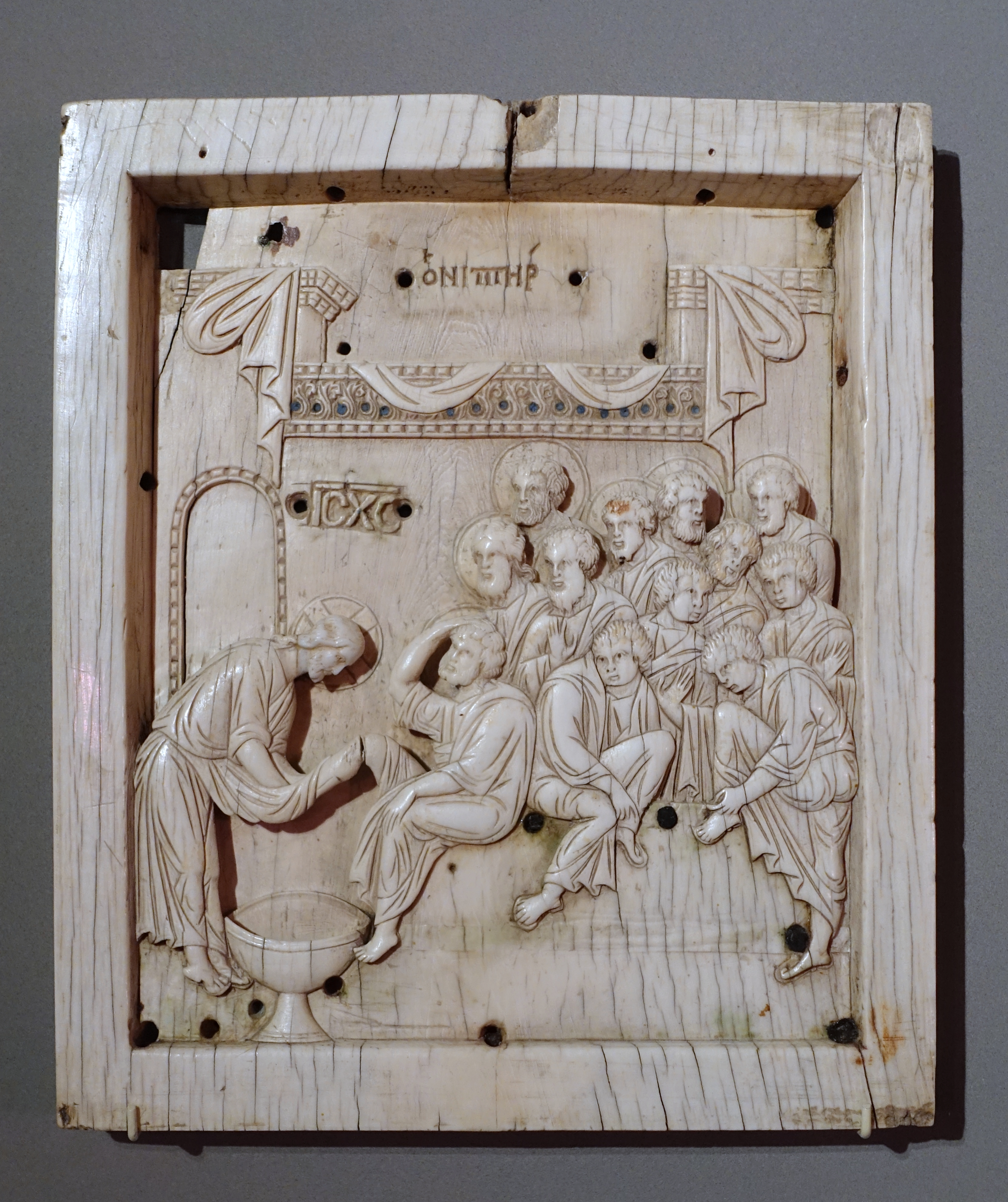 Exhibit in the Bode-Museum, Berlin, Germany. This work is in the public domain because the artist died more than 100 years ago.